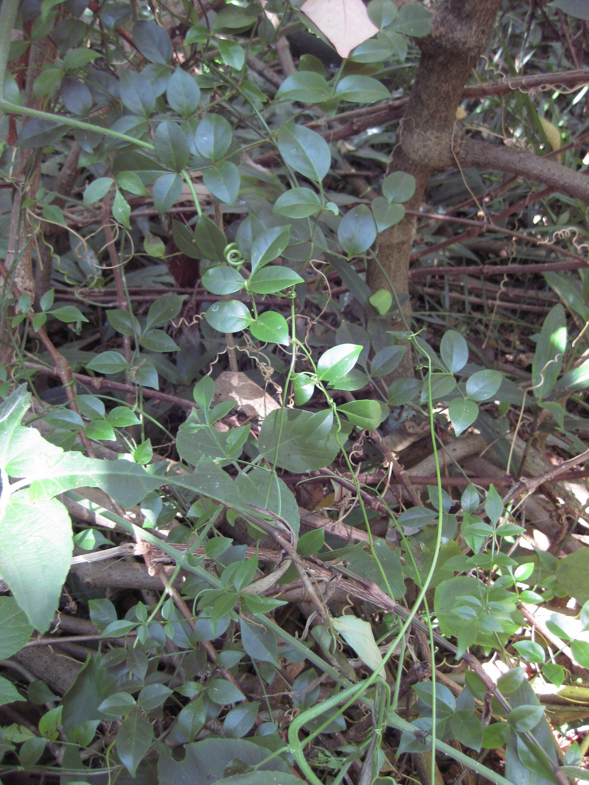 Photographed at the Royal Botanic Gardens Sydney (Australia) in December